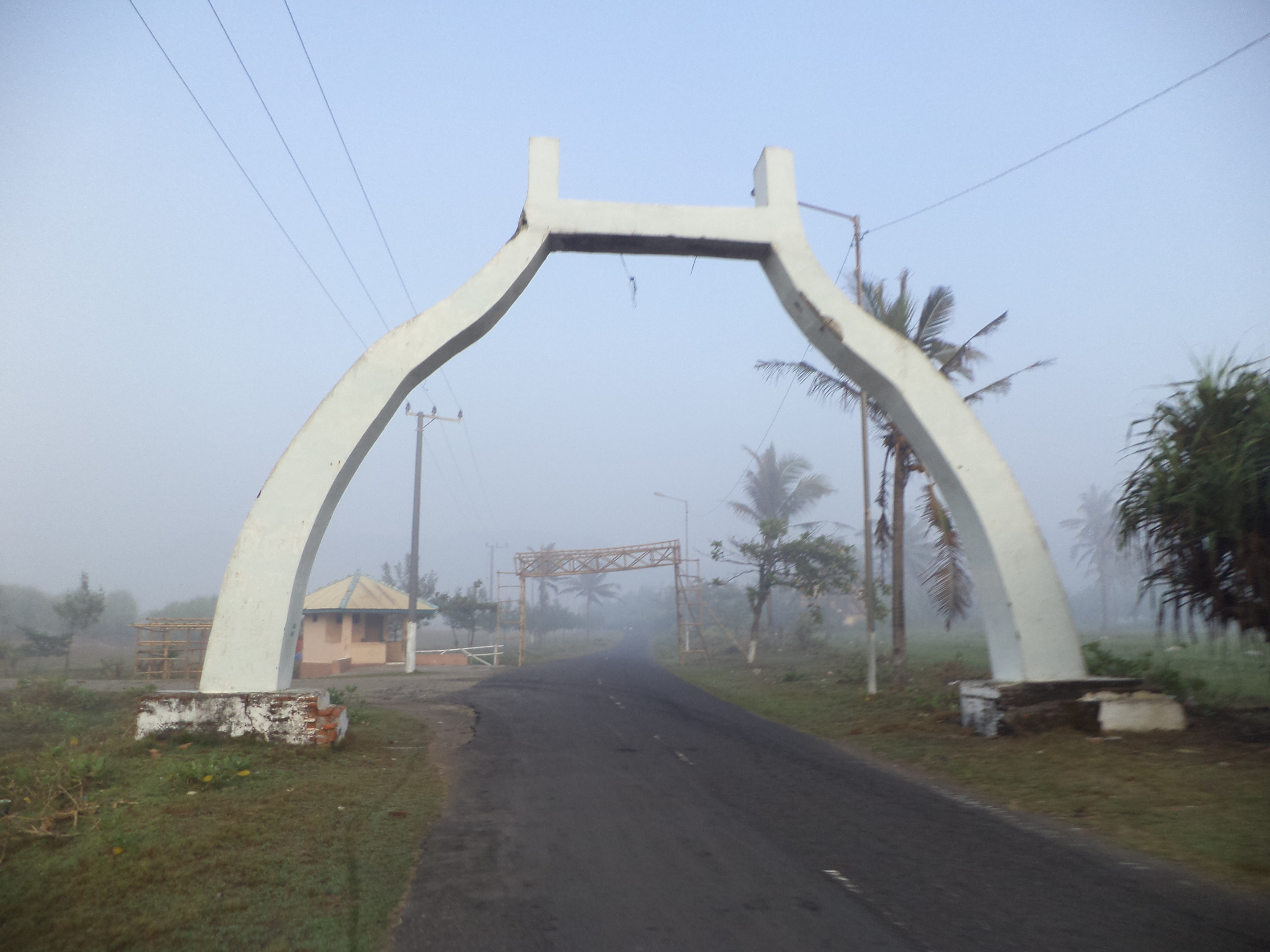 This picture are photographer Much Nesha AR